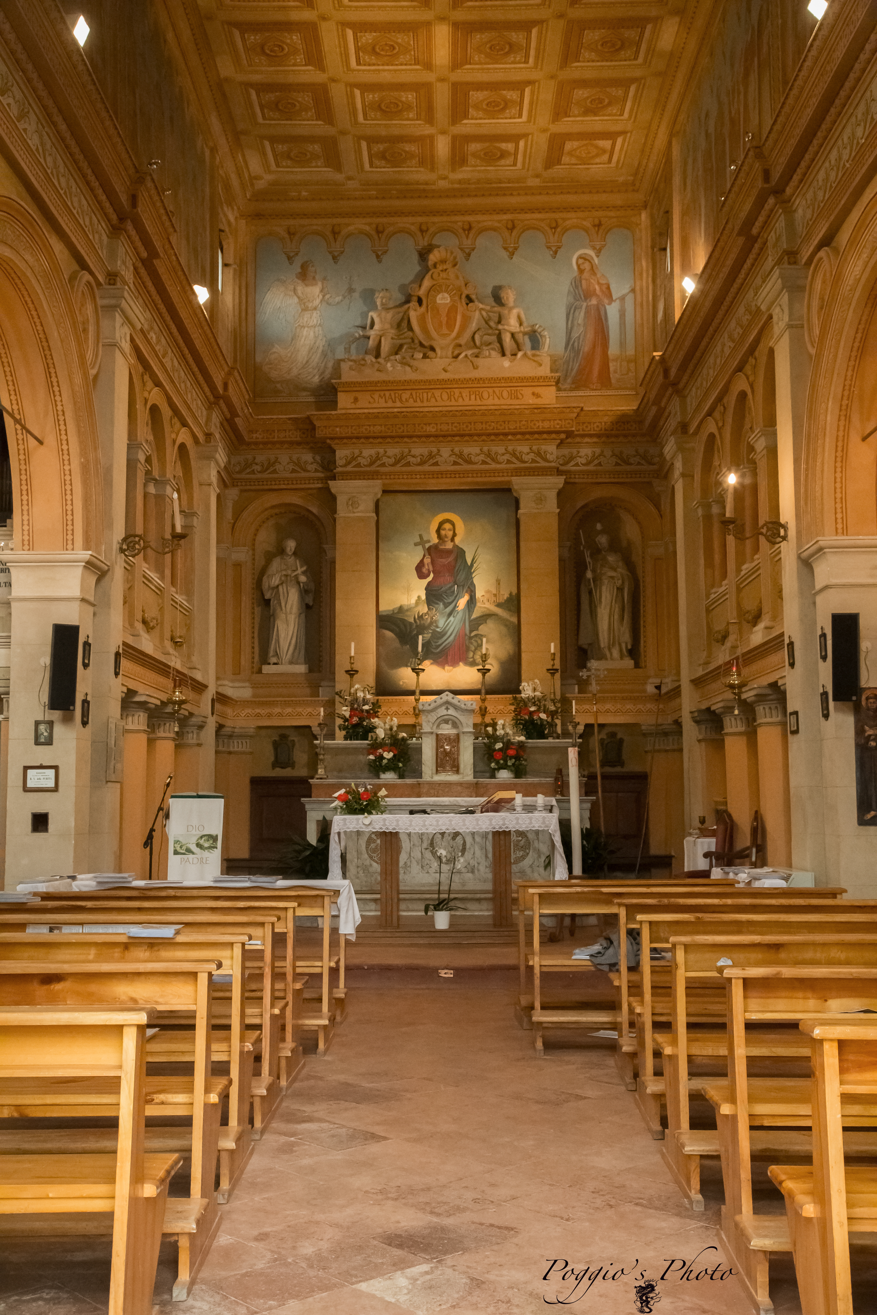 it is the indoor of Santa Margherita in Rivalta(photo made in STEFANO POGGIOLINI)